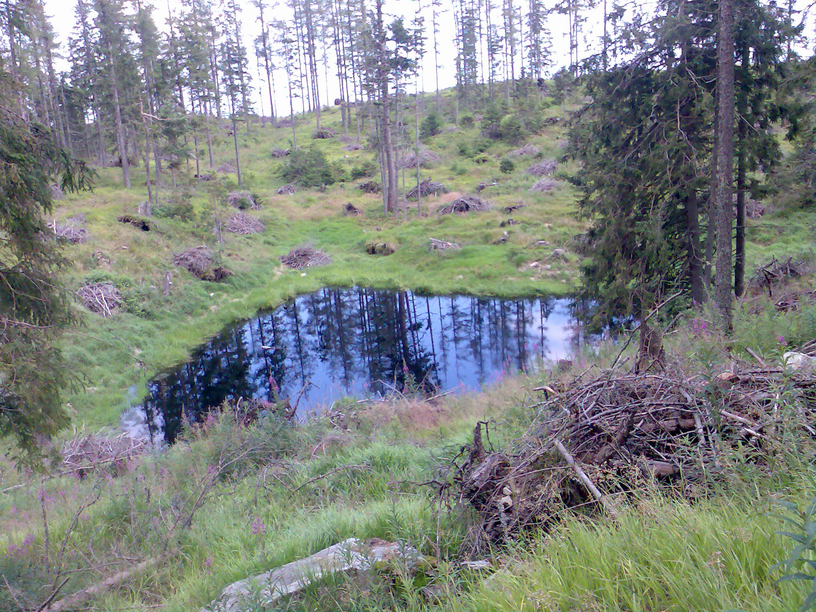 Black Lake